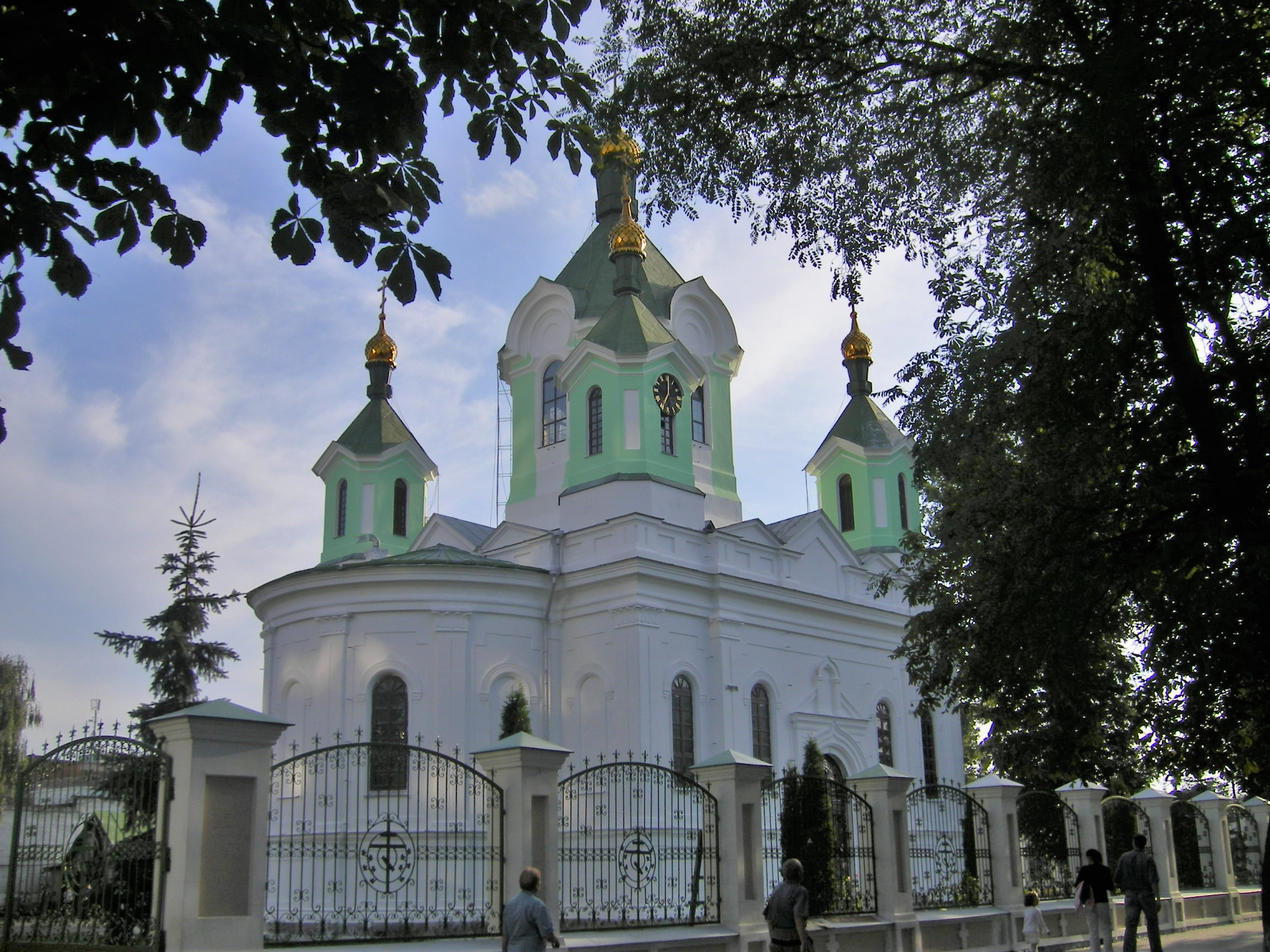 Brest, Church in Masherov Prospekt